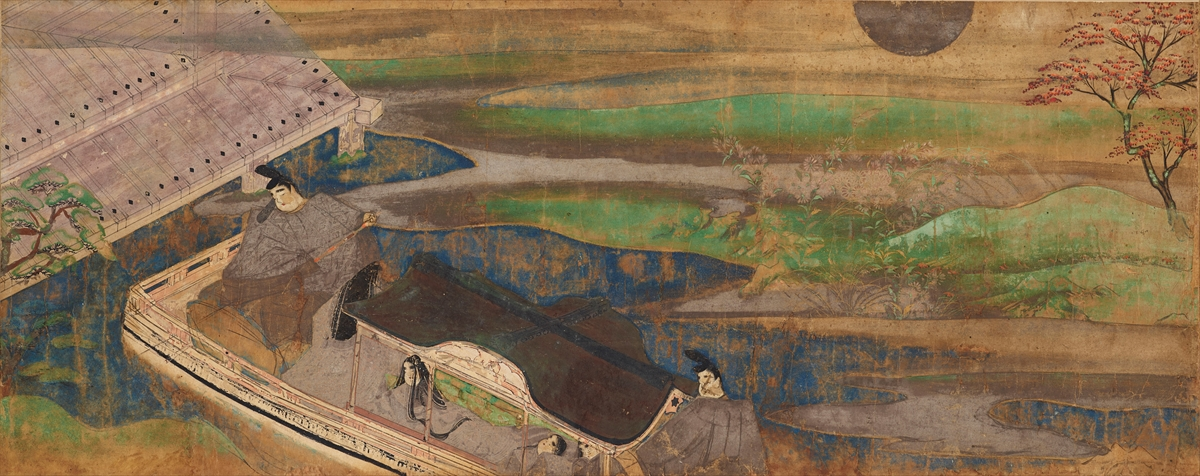 Part of the Murasaki Shikibu Diary Emaki, Fujita edition. color and ink on paper, 21cm height. Fujita Museum, Osaka, Japan